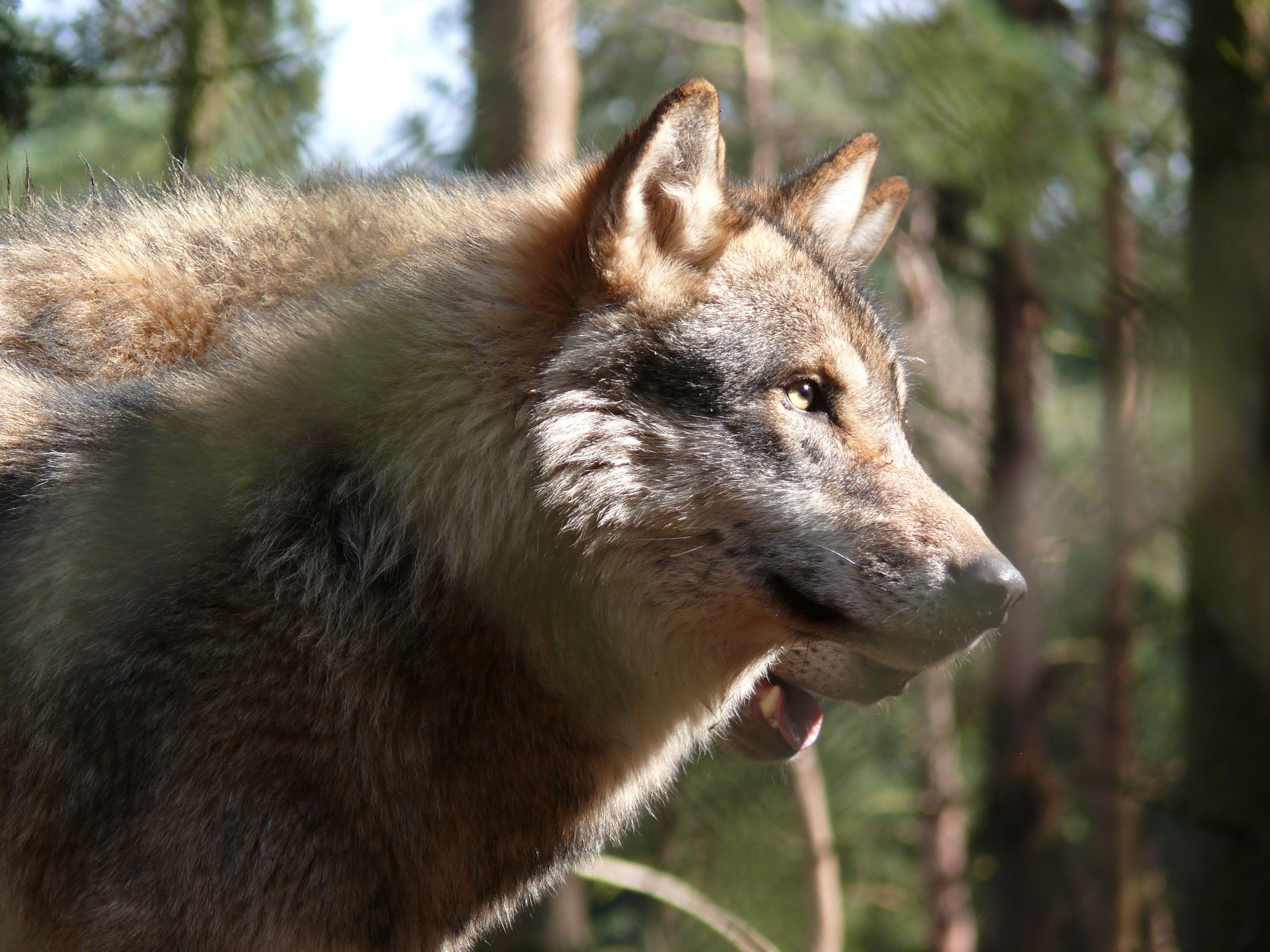 Wolf